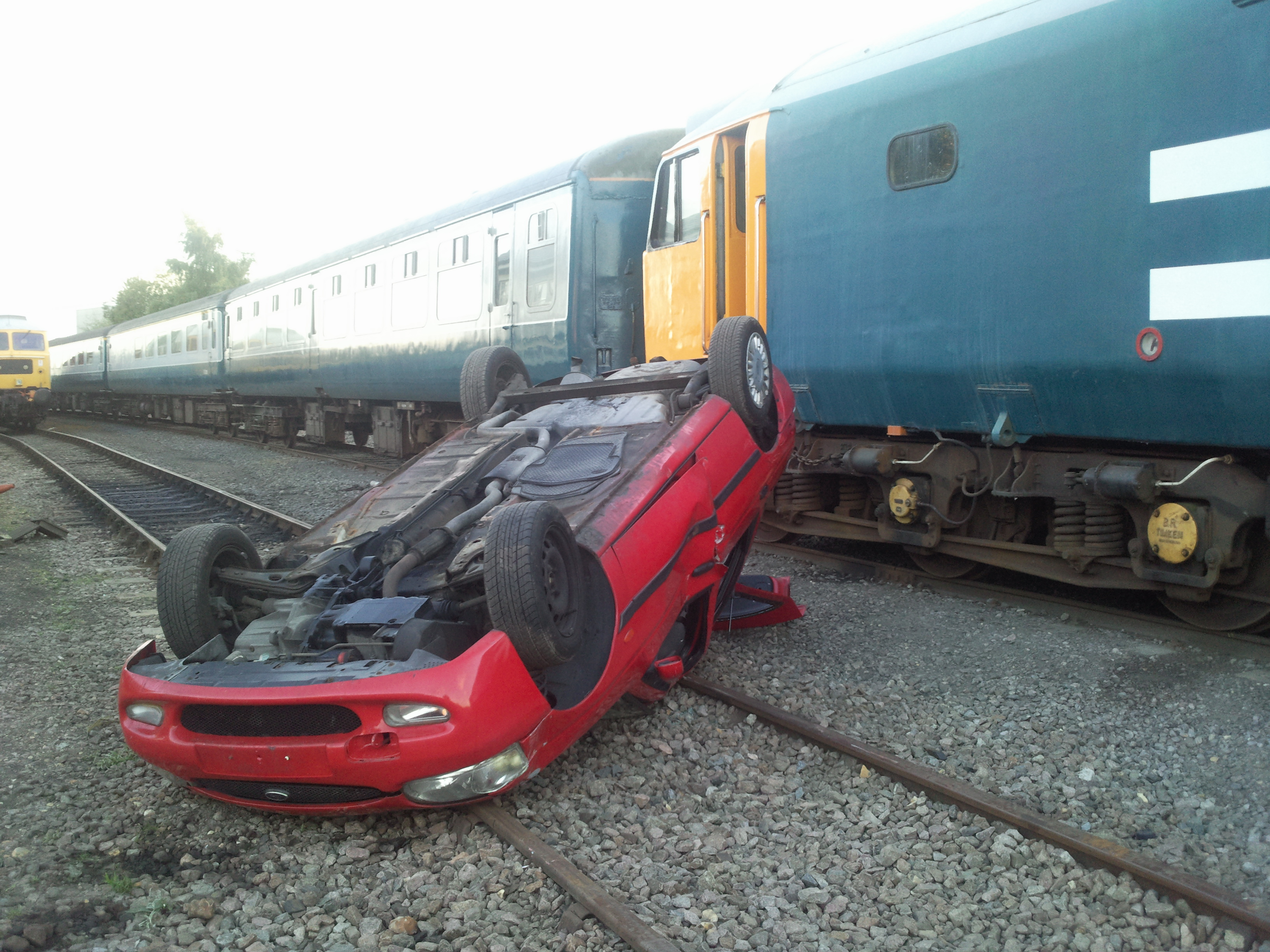 A staged accident at Dereham on the Mid-Norfolk Railway, being used for emergency services training.